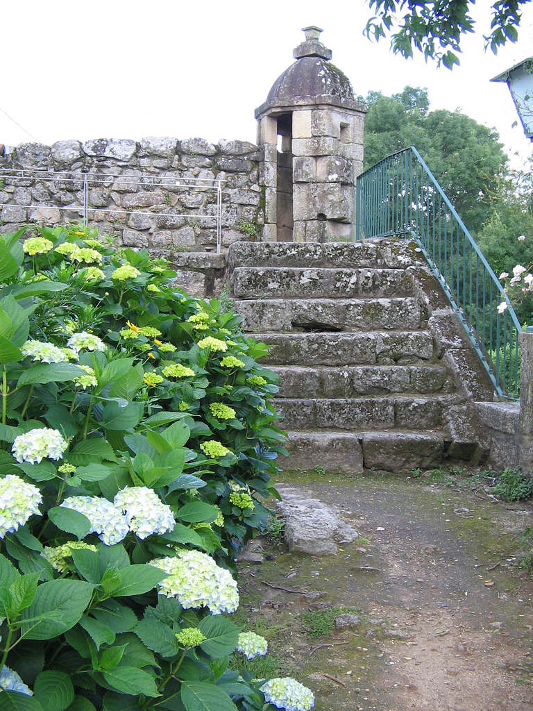 Bartizan in Monção Castel, Monção, Portugal.